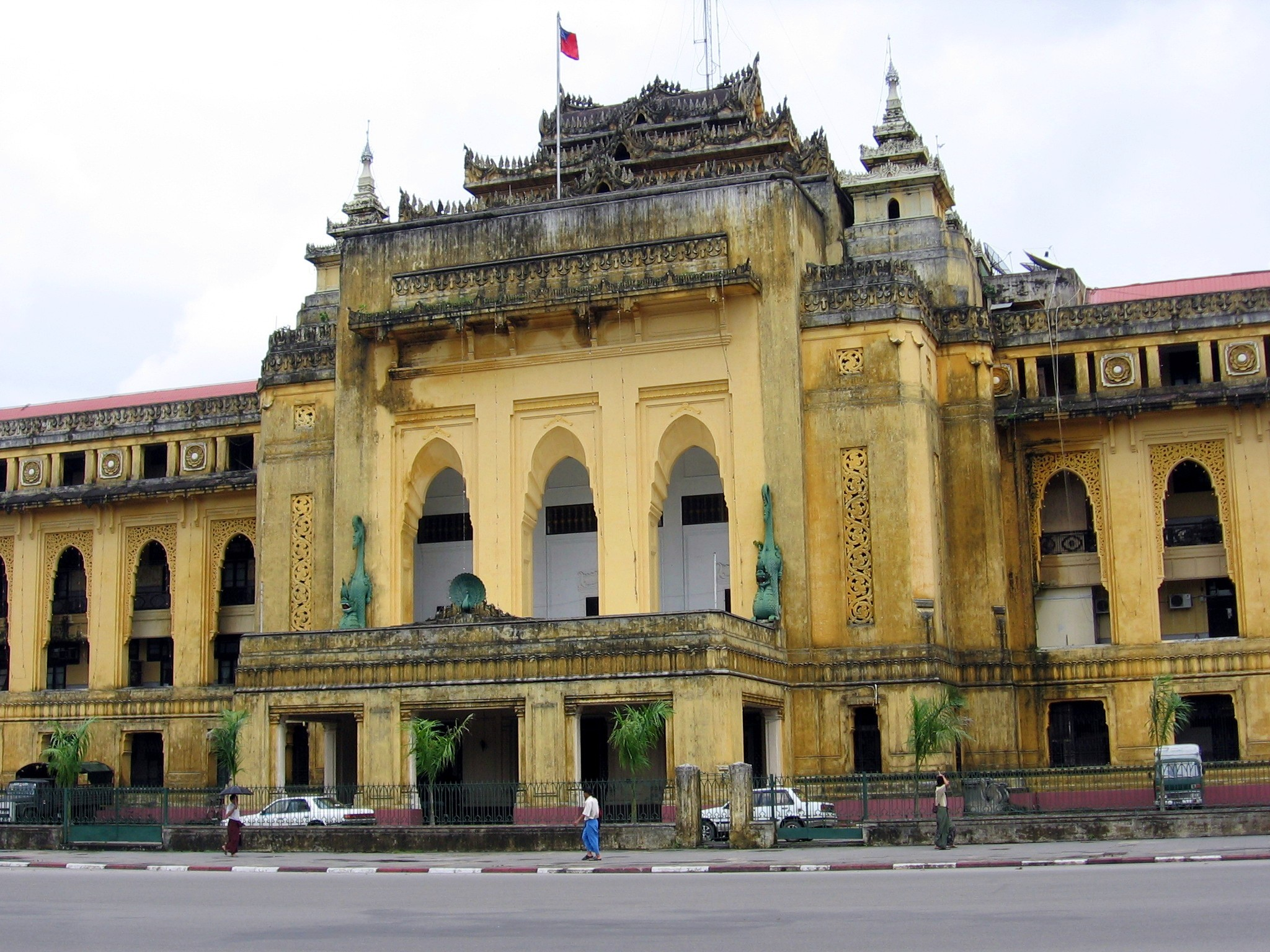 Yangon, Myanmar. City hall.